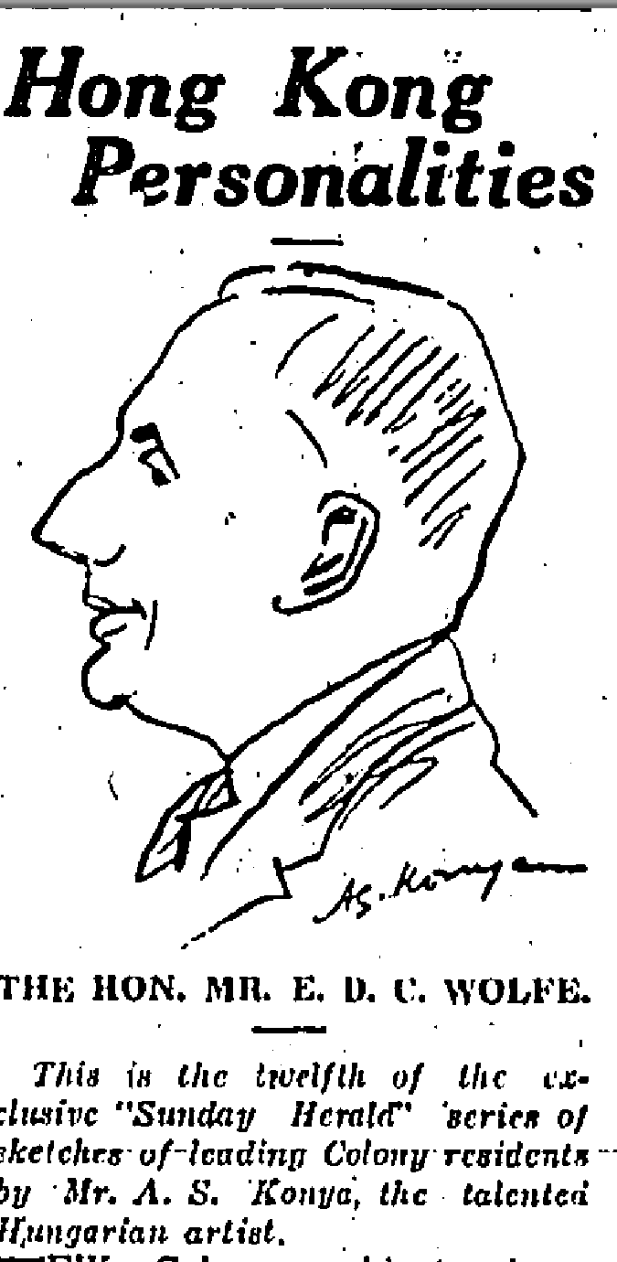 Portrait of E D C Wolfe, Captain Superintendent of Police, 1934